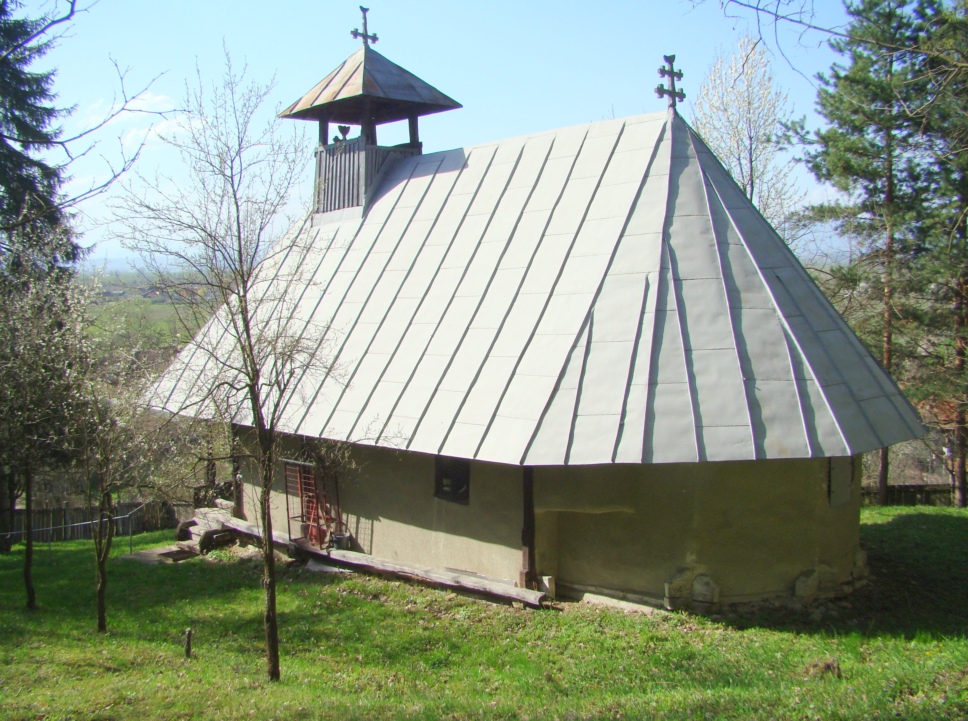 Wooden church in Cârbești, Gorj county, Romania